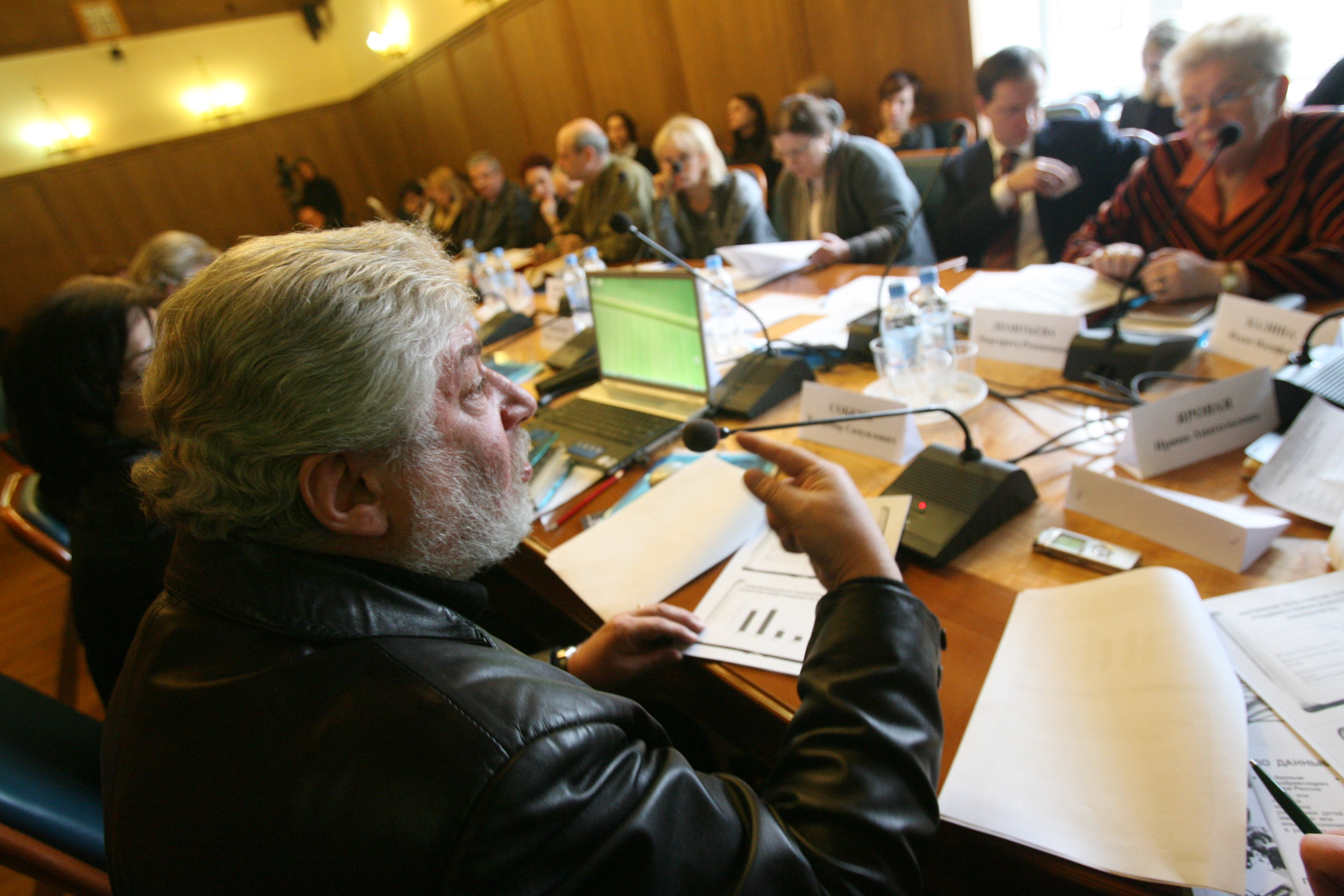 Professor Vladimir Sobkin at a meeting of the State-Patriotic Club, 2011